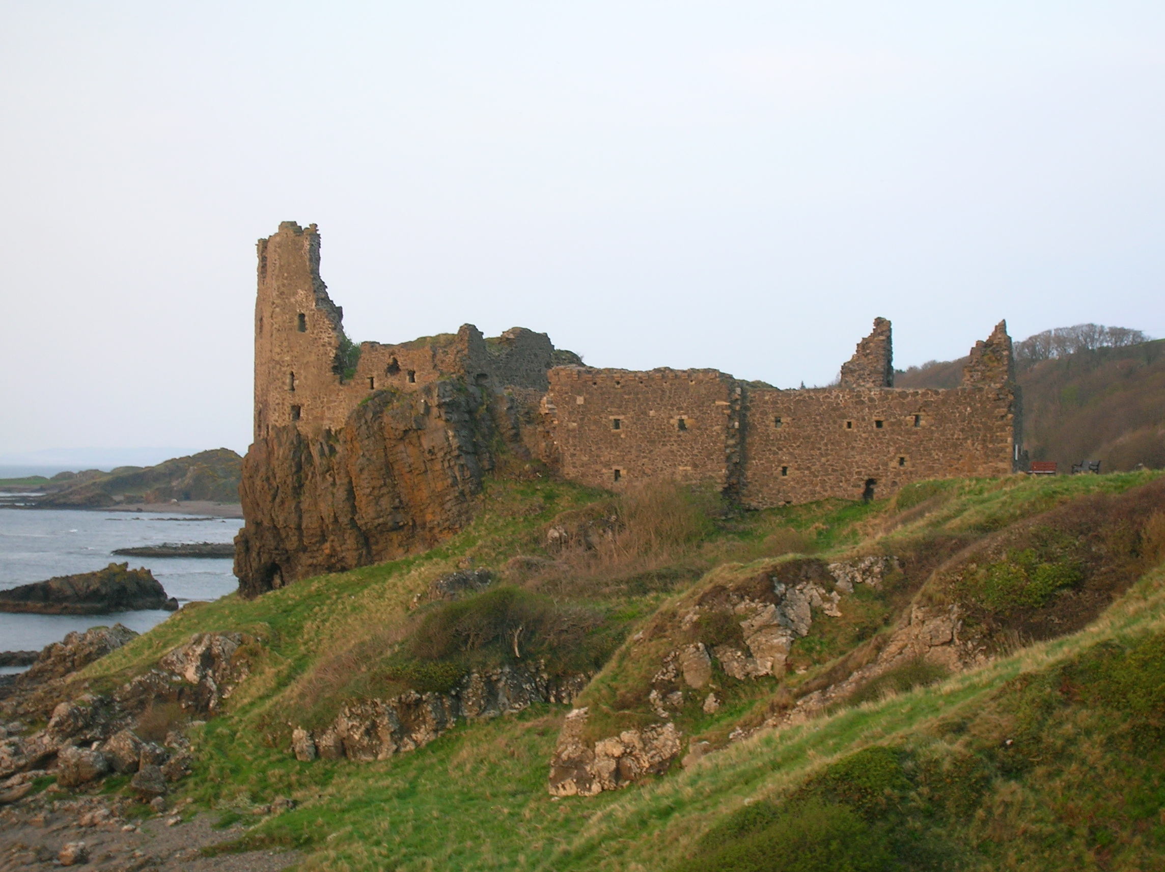 Dunure Castle and headland from neart the labyrinth. South Ayrshire, Scotland.